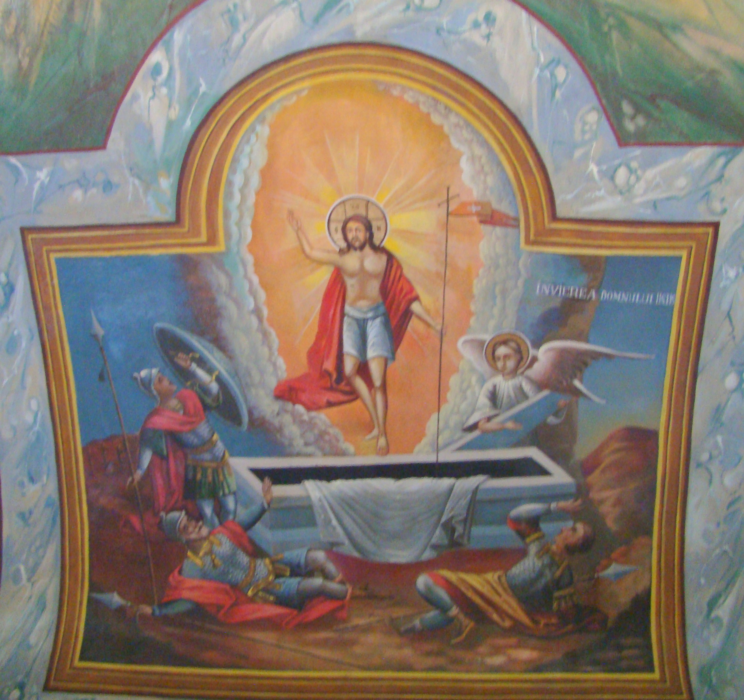 Wooden church in Milostea, Vâlcea county, Romania